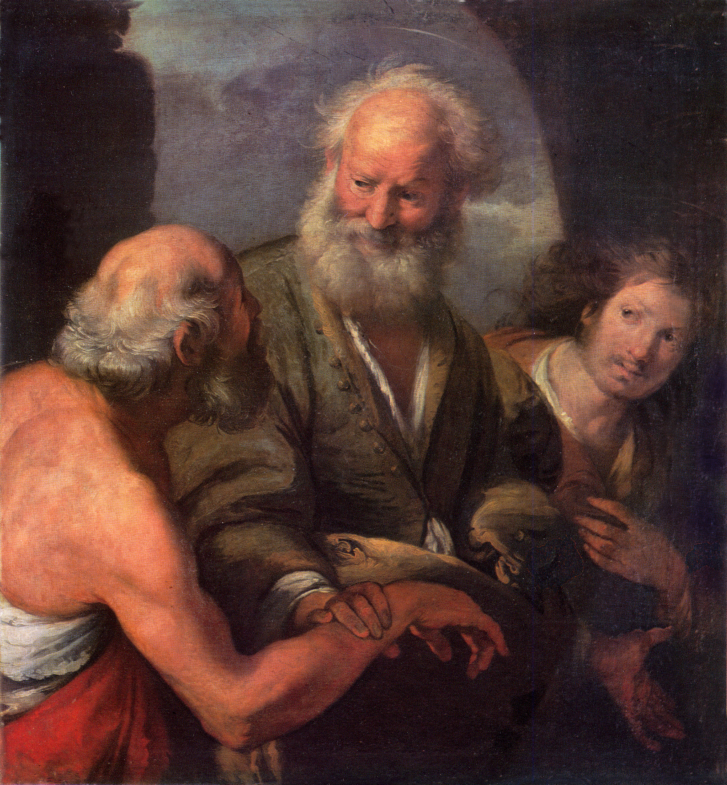 St. Peter Cures the Lame Beggar